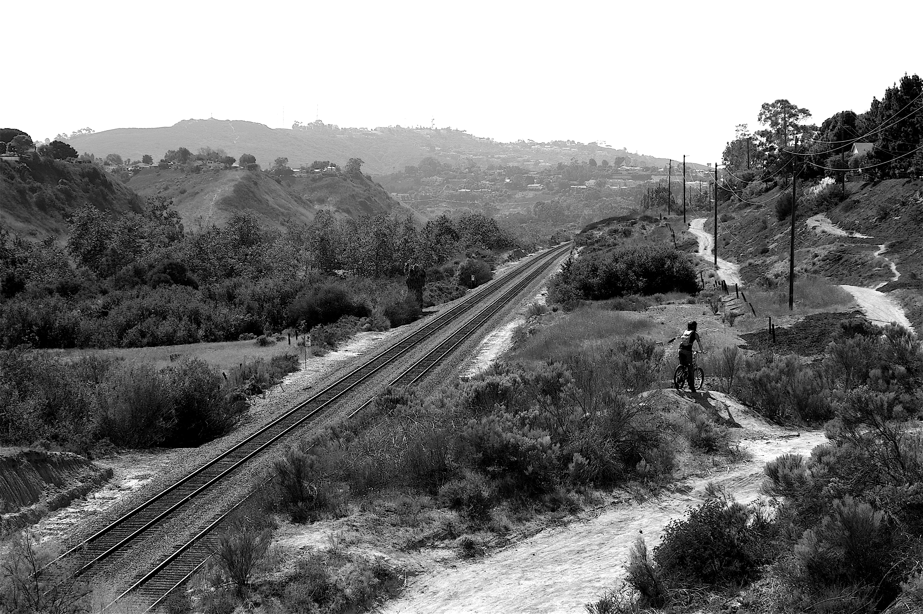 San Diego's Rose Canyon looking toward Mount Soledad